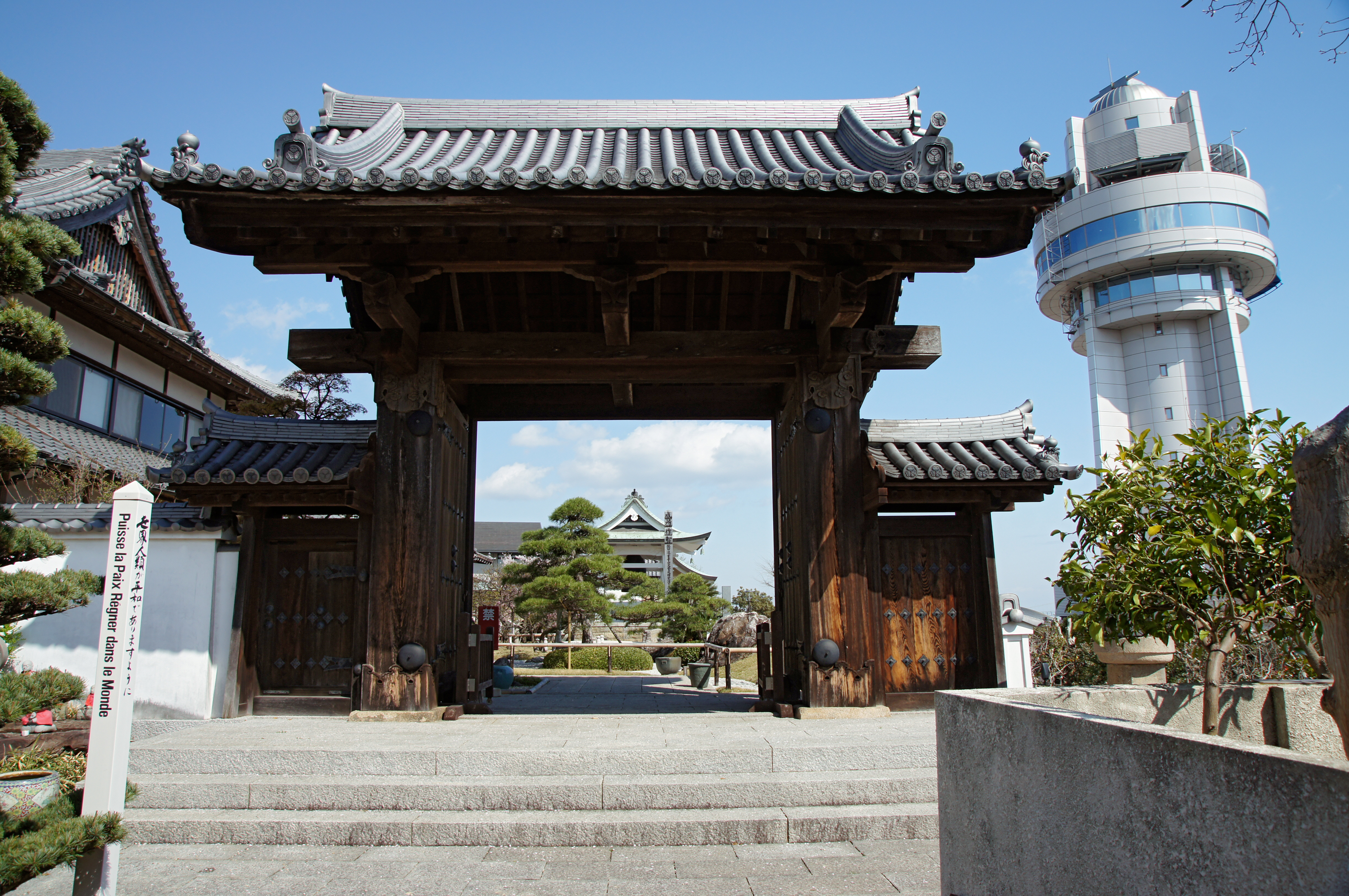 Gesshoji, Akashi, Hyogo prefecture, Japan